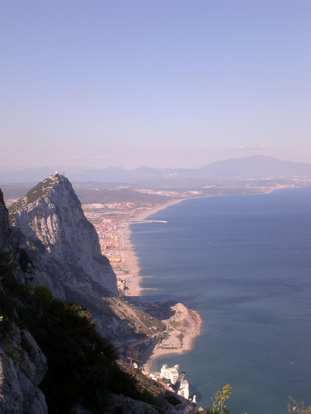 View of the Mediterranean shore of the Cadiz province from the top of the Rock of Gibraltar. Catalan Bay and the Rock in the foreground.